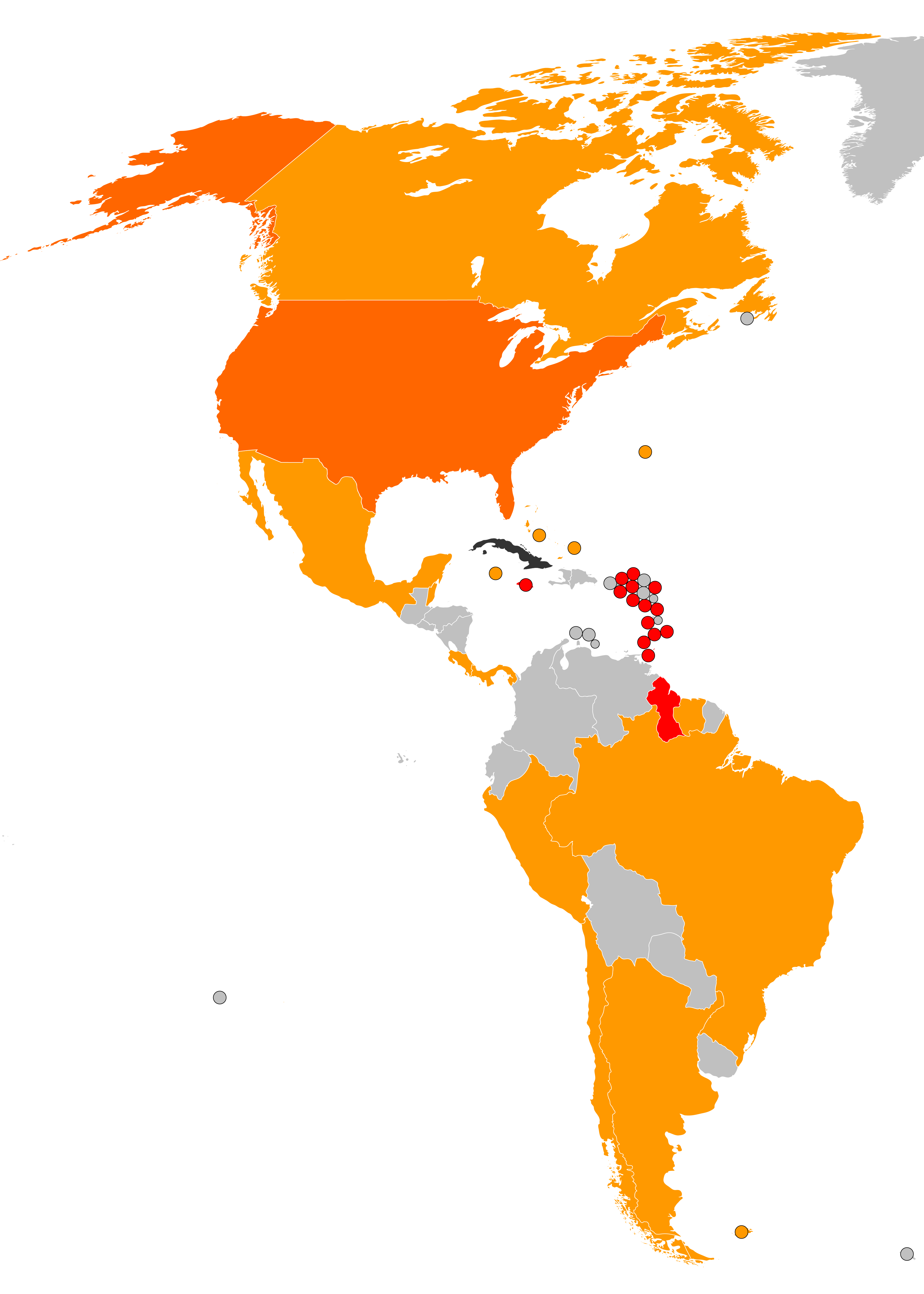 This is a map representing the membership levels of different American nations in the International Cricket Council.